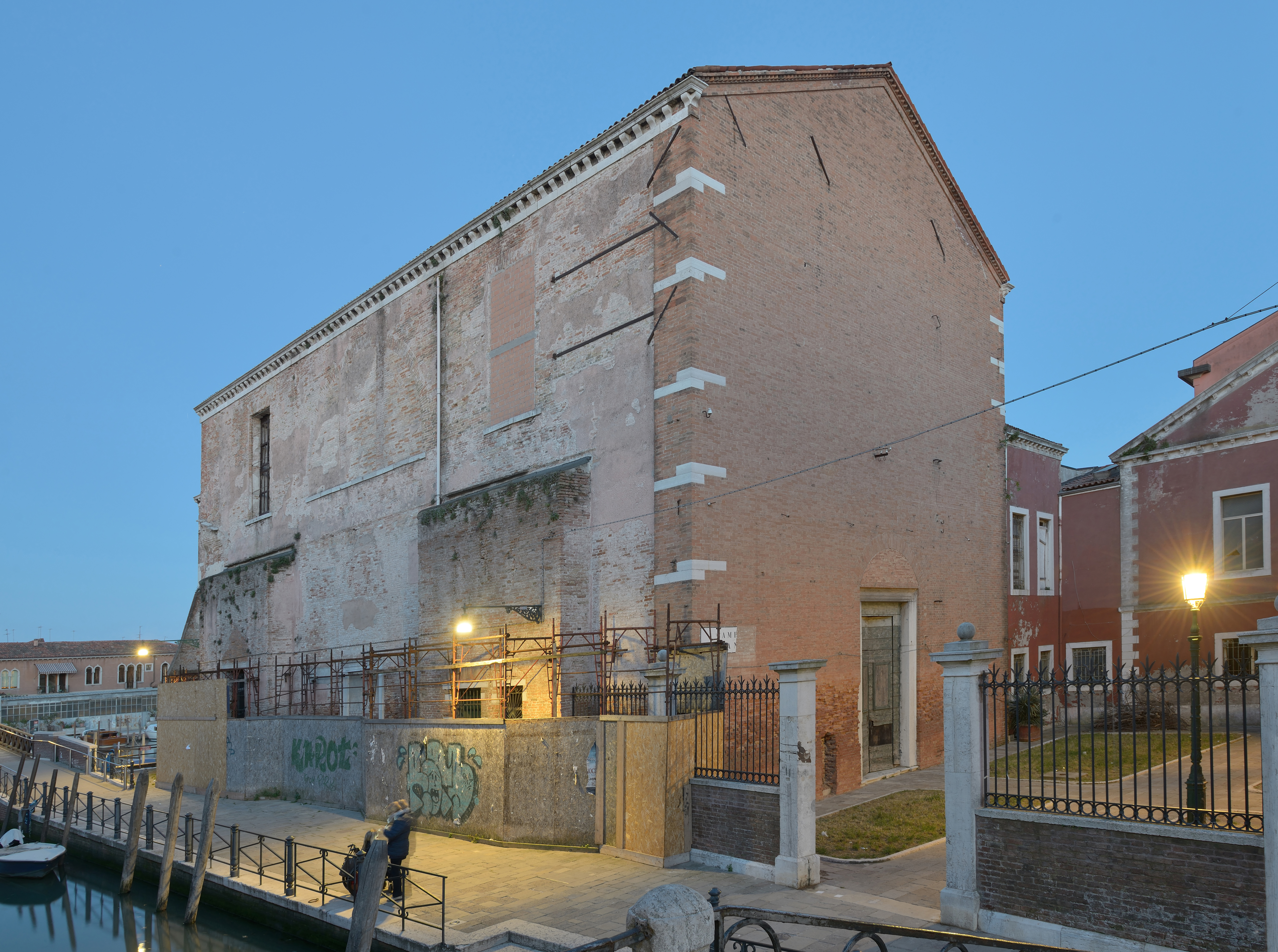 Chiesa di Sant Anna church and the Rio di Sant'Anna in Venice at sunset.